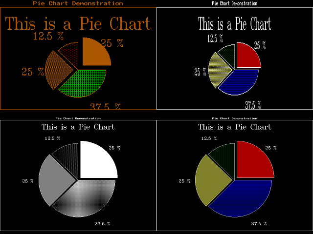 An example of the various adapters and resolutions the BGI could handle: Upper Left: CGA 320x200, 4 Color, Palette 2 (Green, Red, Brown) Upper Right: EGA 640x200, 16 Color Lower Left: MCGA 640x480, 2 Color, B/W Lower Right: VGA 640x480, 16 Color